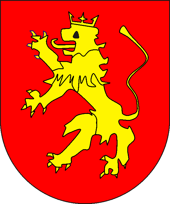 Gules lion rampant or crowned and langued or